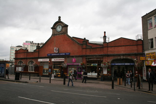 Hammersmith station (Hammersmith & City line) London Transport trains depart from this station for all stations to Whitechapel (or Barking), via Kings Cross. The same destinations can also be reached by using the District Line, in which case you will travel via Victoria.